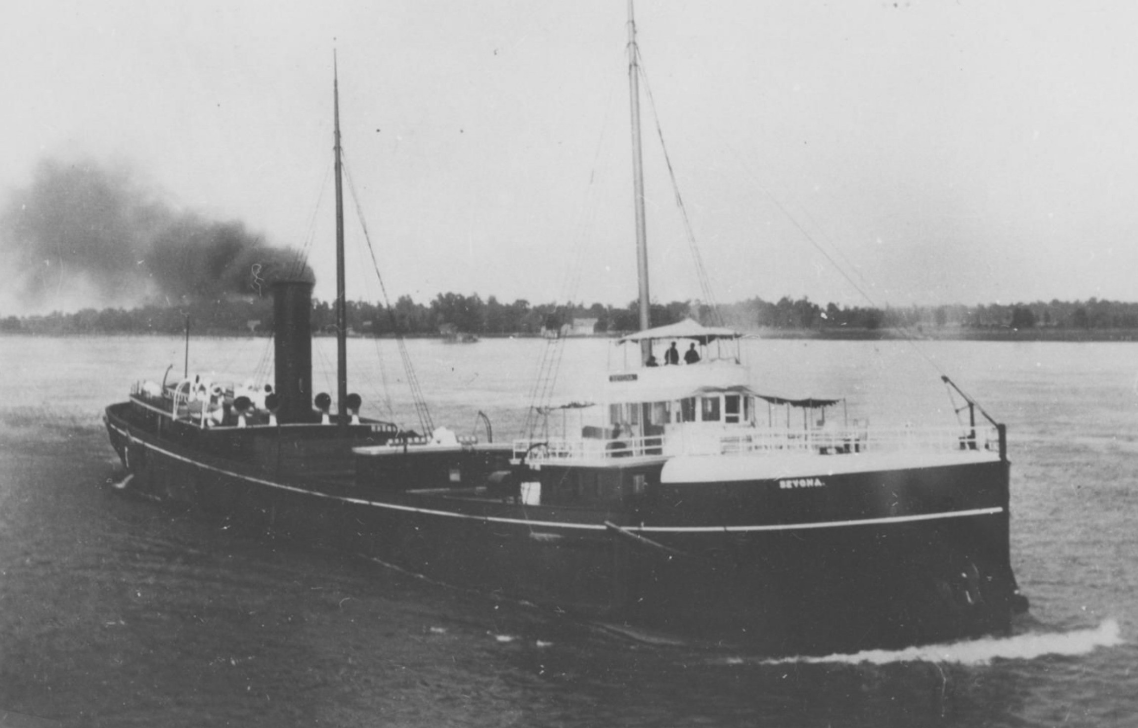 The SS Sevona underway